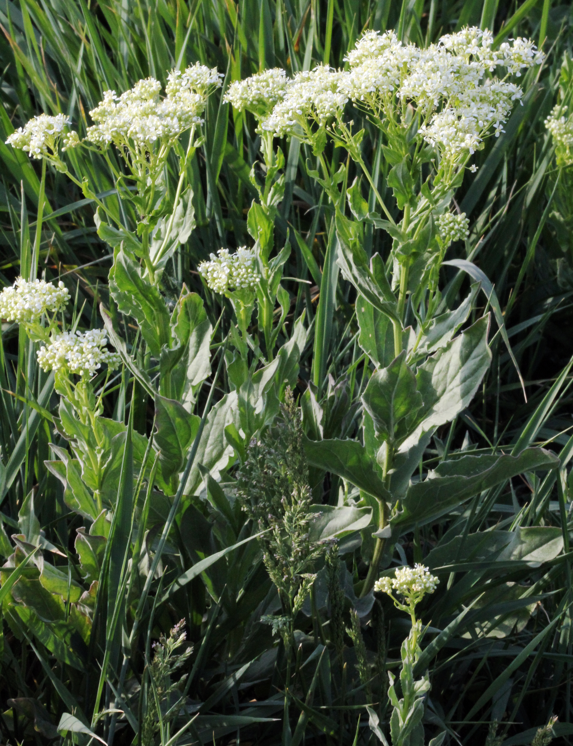 Plant whitetop "Cardaria draba", central Bohemia, Czech Republic